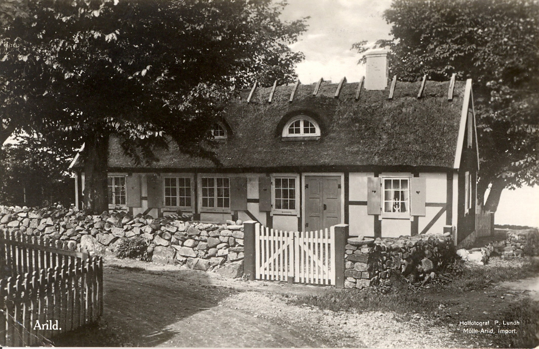 The half-timbered house "Stugan" in Arild, Sweden